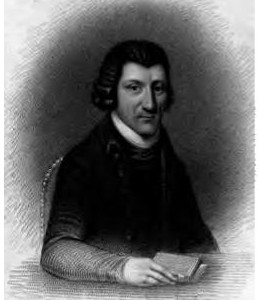 Portrait of Joseph Bretland (1742–1819), English dissenting minister.